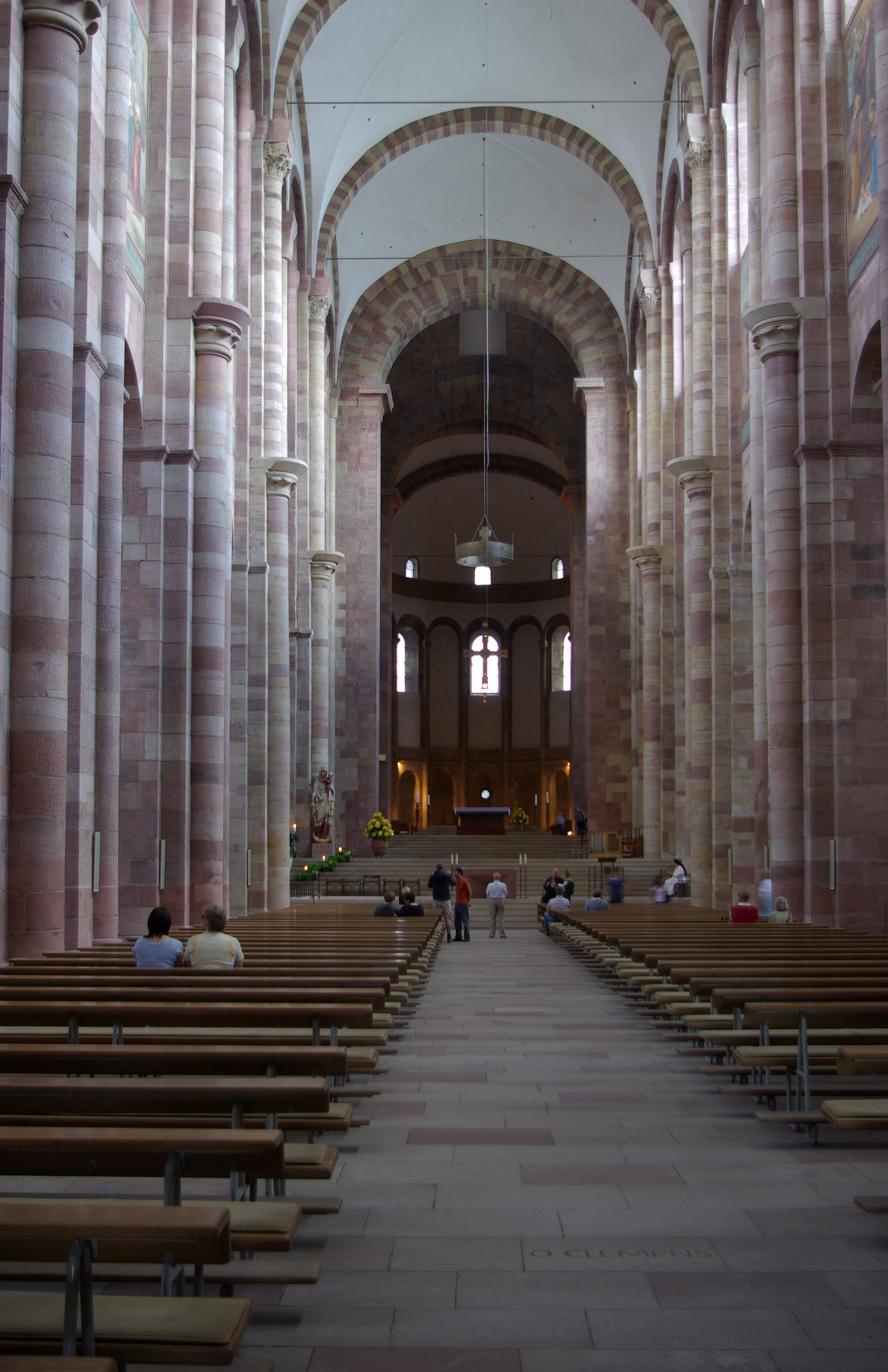 Germany, Speyer cathedral, nave from west